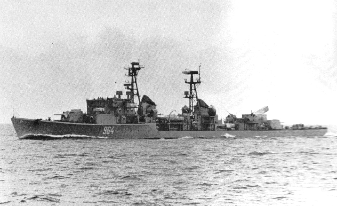 The Soviet project 31 electronic intelligence destroyer «Stremitel'nyi» (modified project 30bis ship) with corner reflectors in the Baltic in late 1961.